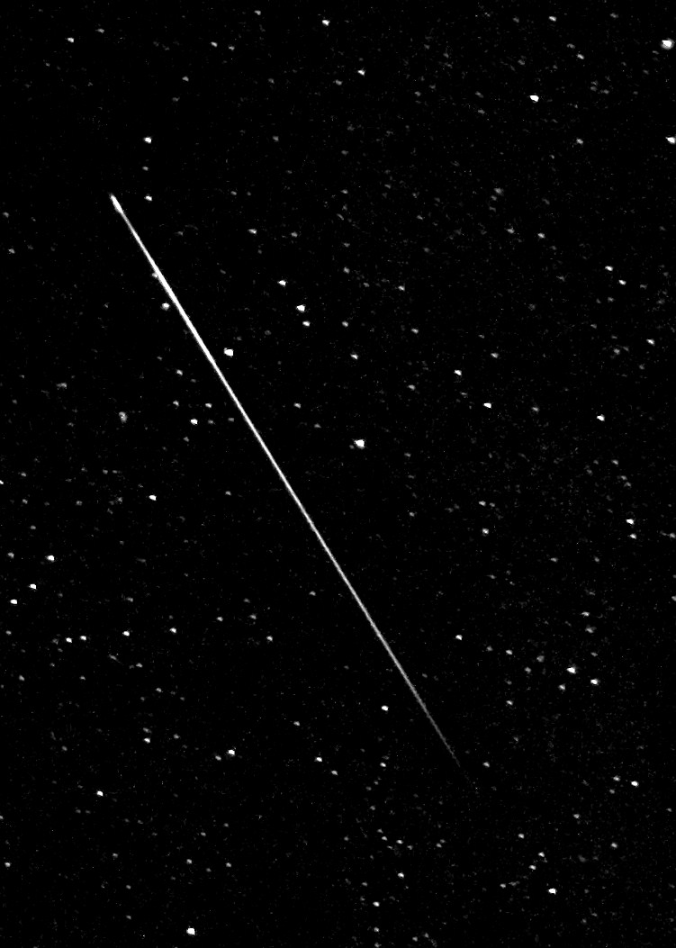 A crop and enhacement of a Perseid Meteor I caught, one of the best and brightest I saw and captured during the August 12, 2008 Perseid Meteor Shower.